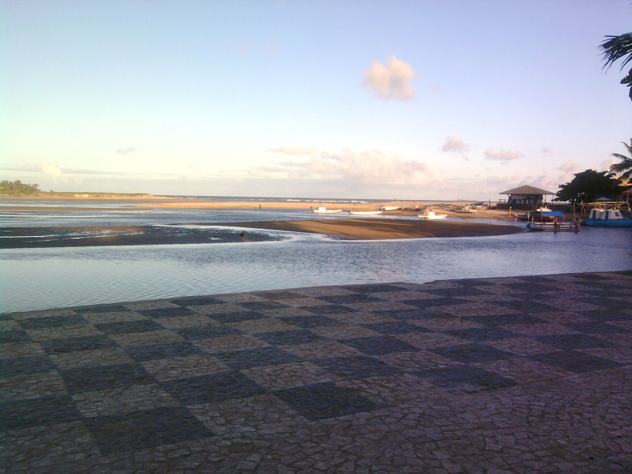 Buraquinho Beach